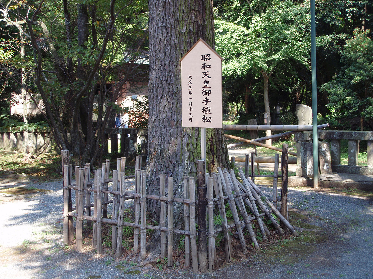 This Japanese black pine (Pinus thunbergii) was planted by the Shōwa Emperor in Izusan Jinja, located in Atami city, Shizuoka prefecture, Japan.